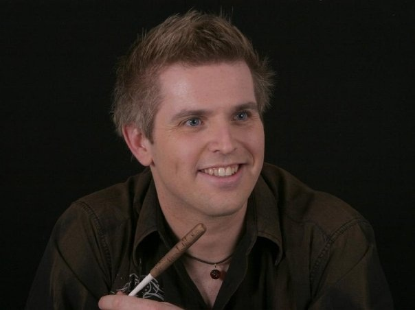 Dan Ettinger